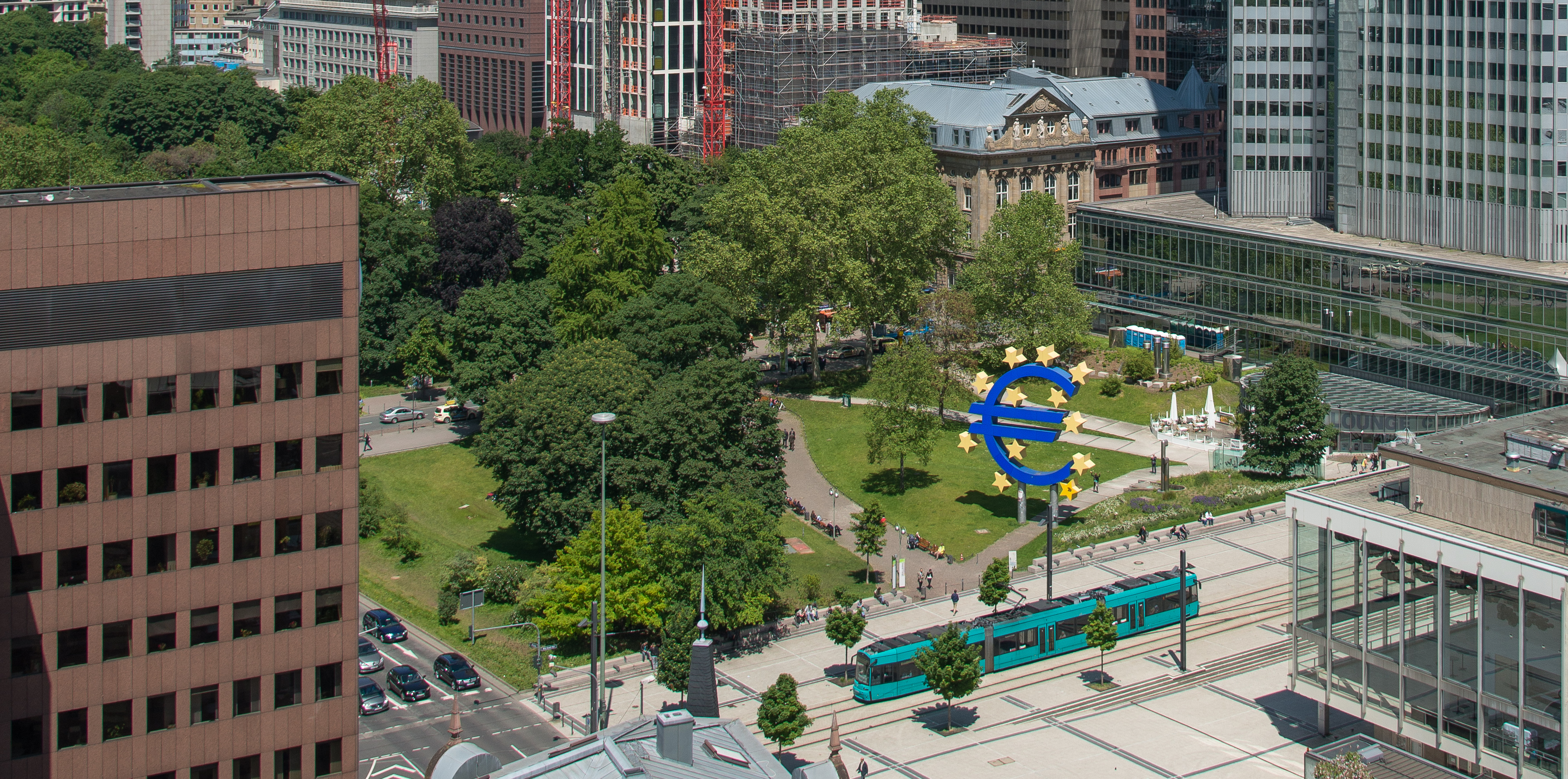 Frankfurt am Main: Southern Gallusanlage with the Willy-Brandt-Platz and the Frankfurt Opera in the foreground (right) and the European Central Bank in the upper right. The park continues into the background towards the upper left of the picture.